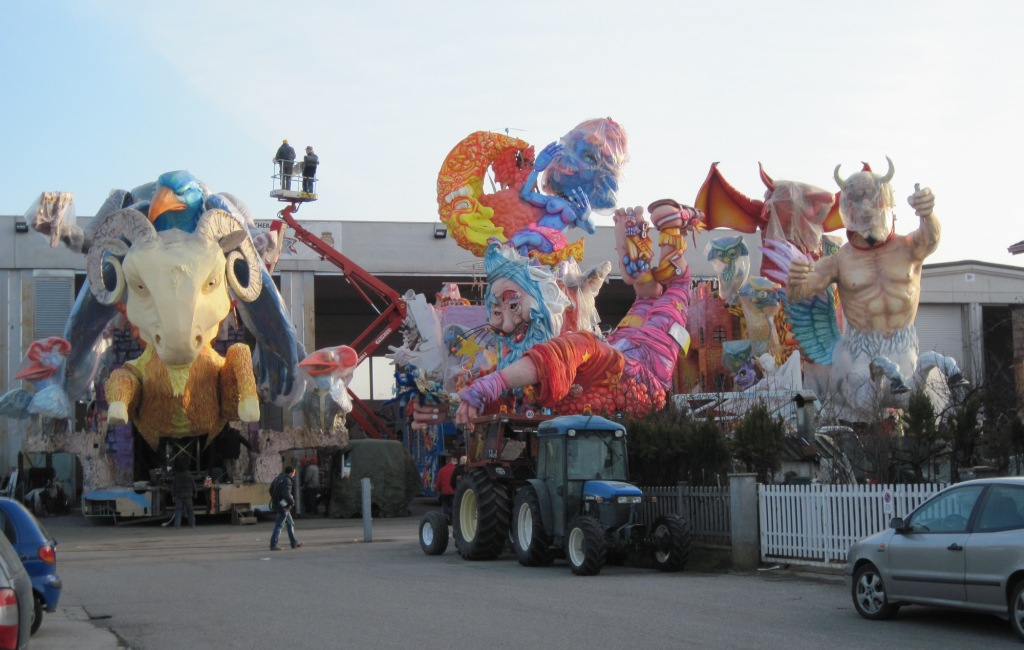 Working on carnival floats in Cento.